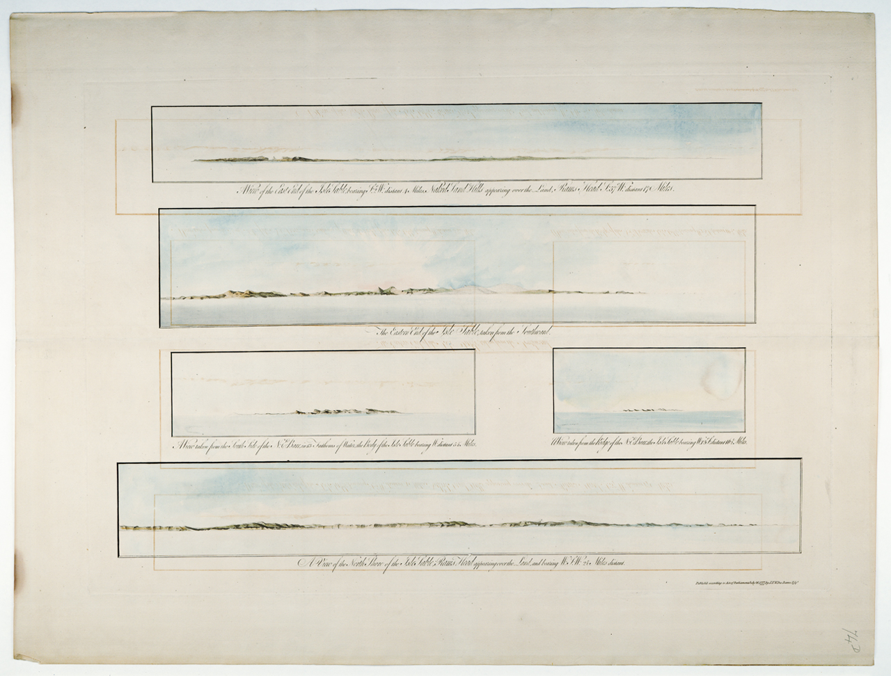 [Five distant views of the Isle of Sable]Single sheet. Engraved. Plate changes: Imprint July 26 1777. Other features: Printed on Bates paper. Coloured. HNS 74D [Five distant views of the Isle of Sable]